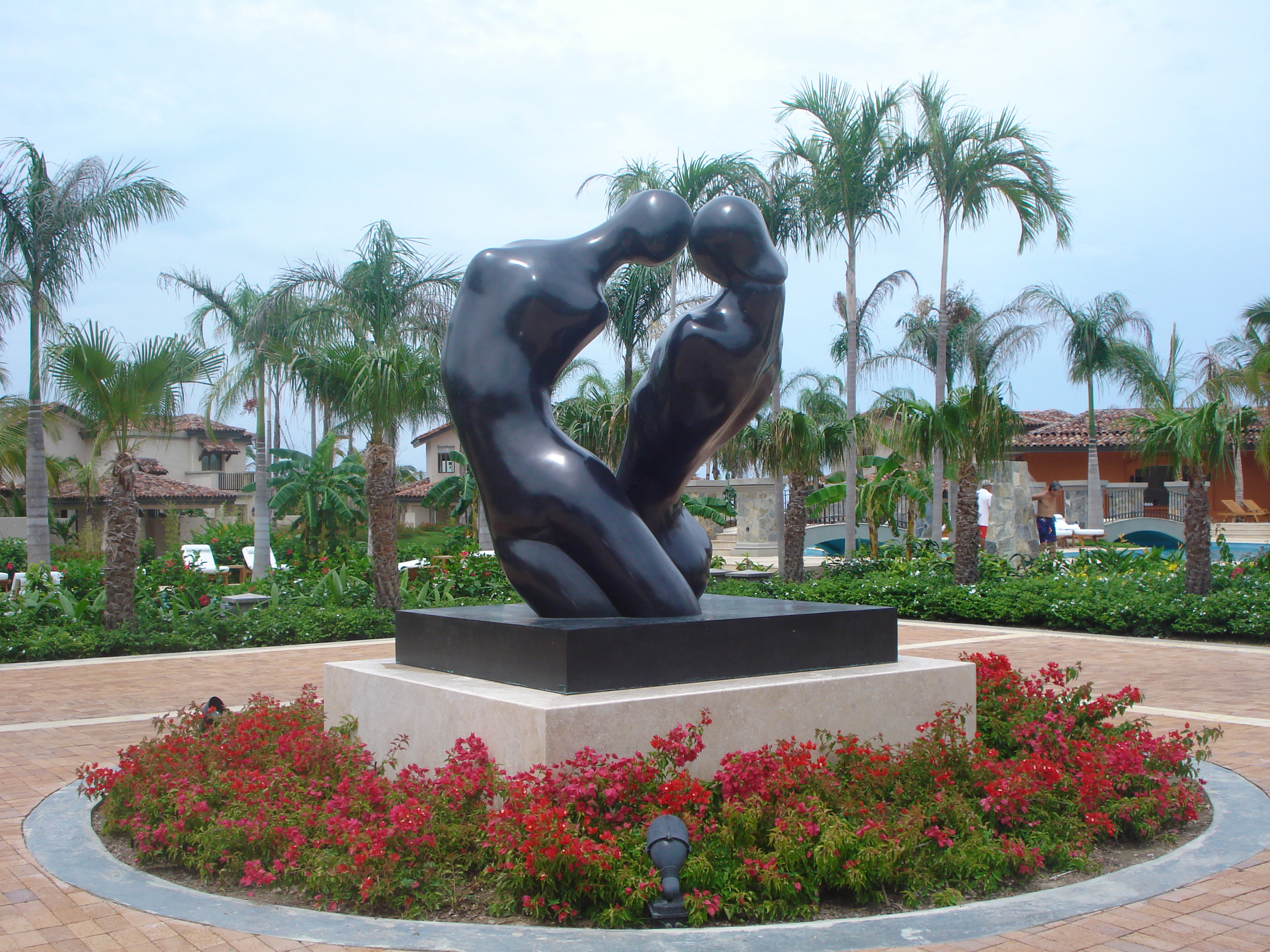 A bronze sculpture "Amantes" created by Manuel Carbonell, for the Hotel Bristol, located in Buenaventura, Panama. This sculpture is the focal point of the entrance of the hotel.